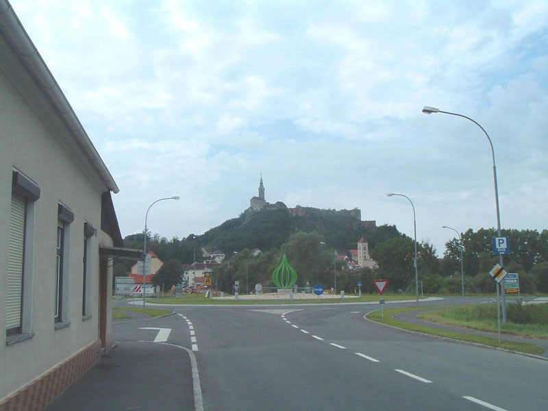 The Castle of Güssing, Burgenland, Austria. On the left side, the birthplace of famous Hungarian actor, László Csákányi is visible.